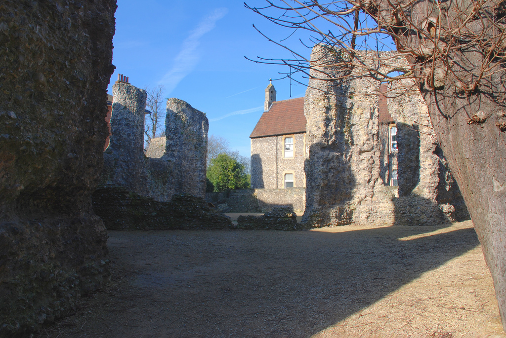 The ruins of Reading Abbey, in the English town of Reading. Open to the public when this photograph was taken, this area is currently closed due to safety fears over the stability of the ruins. For more information, see the wikipedia article Reading Abbey.